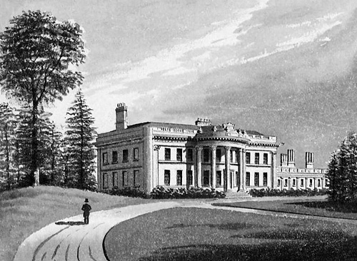 Sulby Hall, southwest of Market Harborough in Northamptonshire, designed by John Soane, home of George Payne ((1804-1878), racehorse owner and breeder